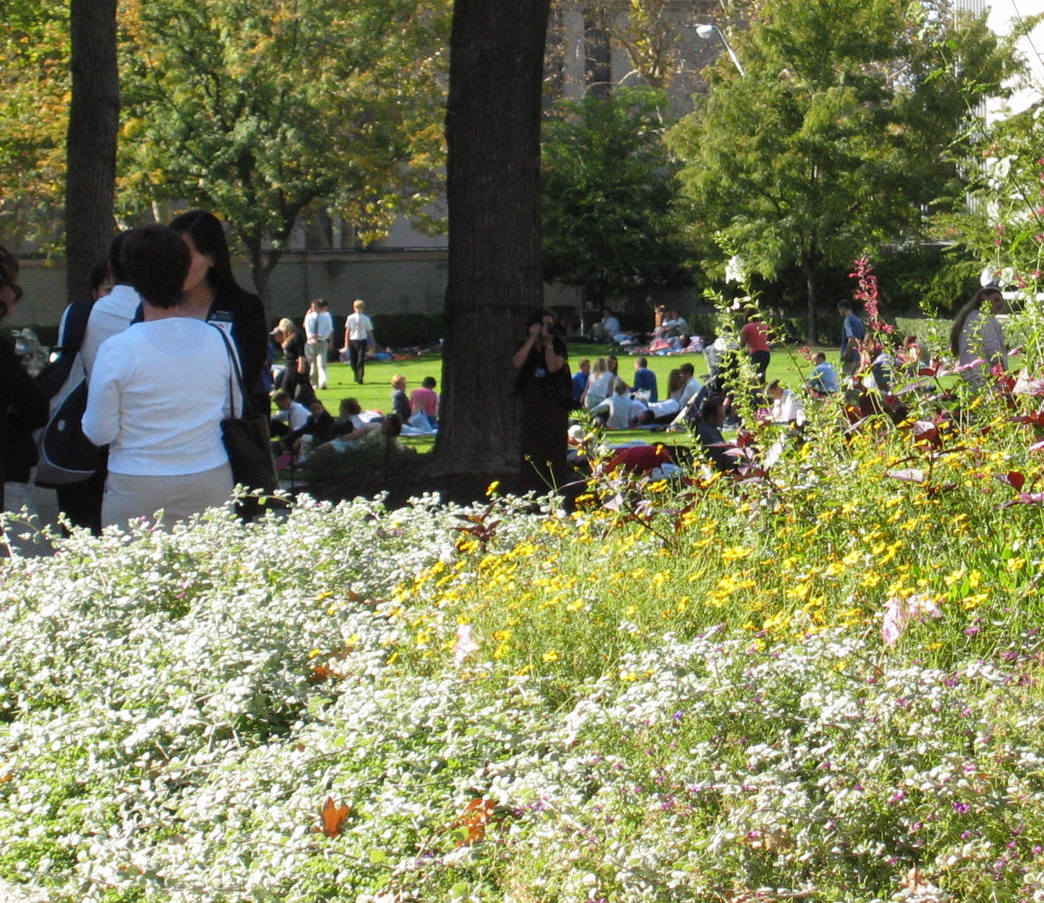 People in between sessions of General Conference, Temple Square, Salt Lake City, Utah.